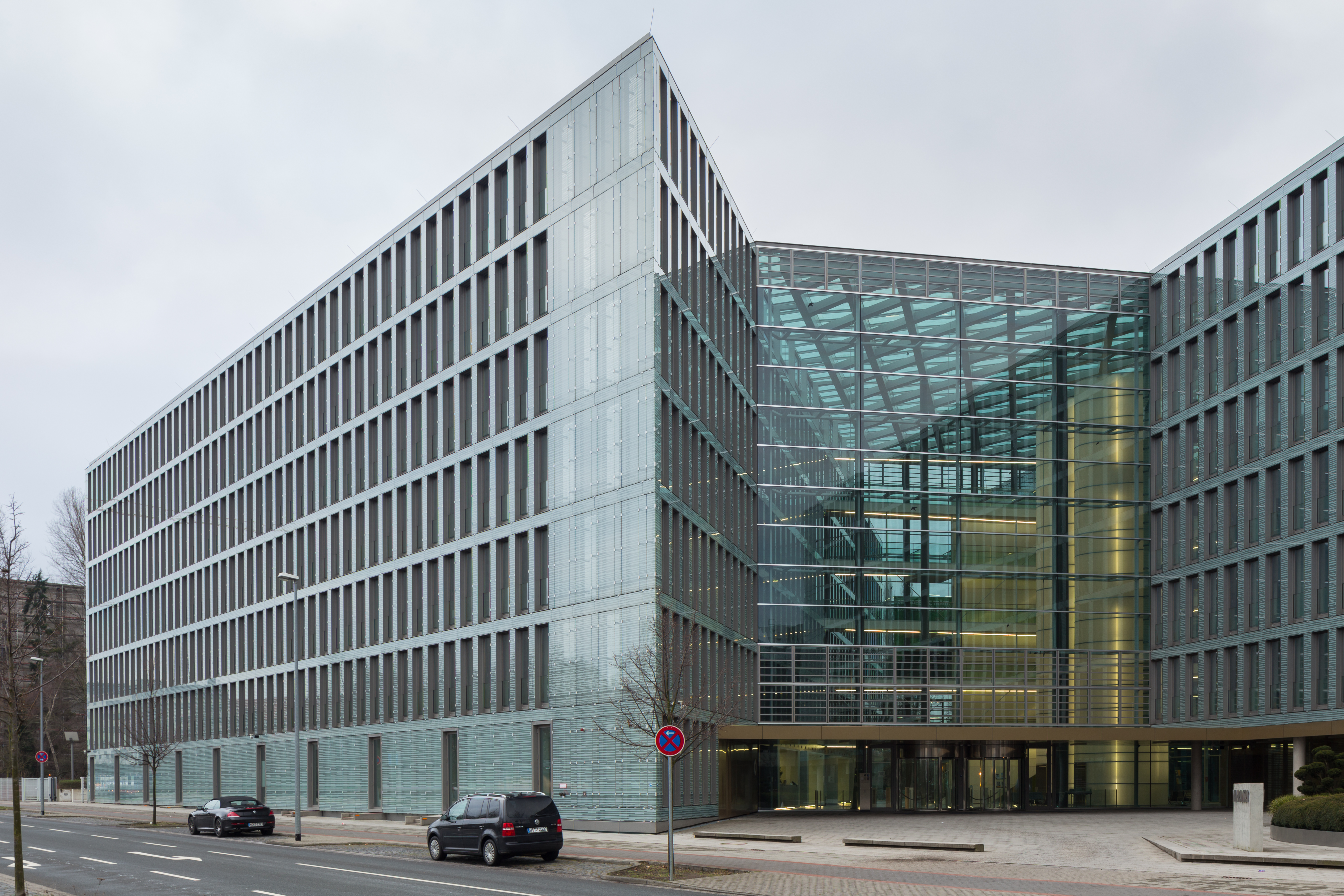 Office building of VHV insurance company located at Constantinstrasse and Guenther-Wagner-Allee in List district of Hanover, Germany.